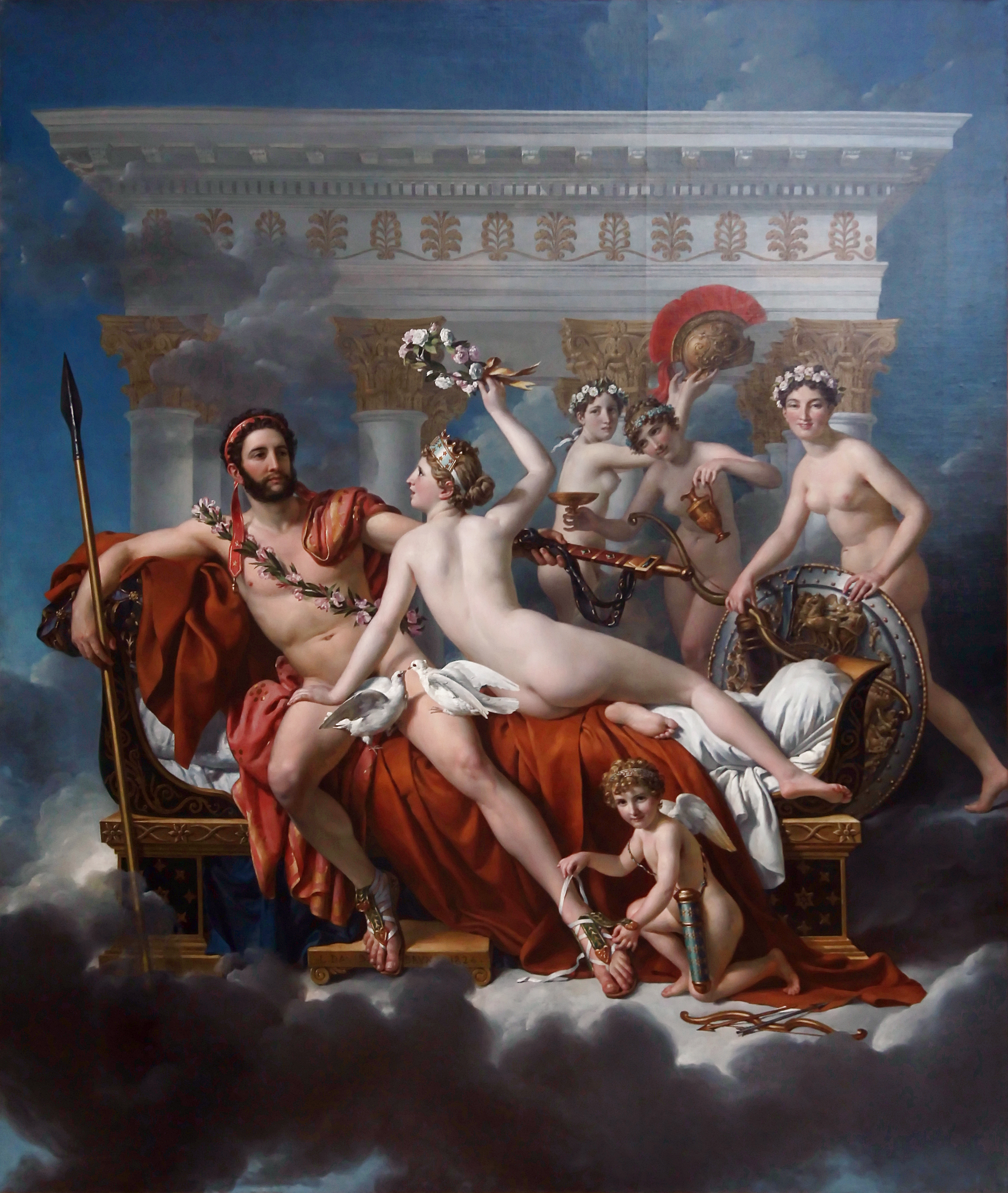 Legacy of Jules David-Chassagnol, Paris 1886.